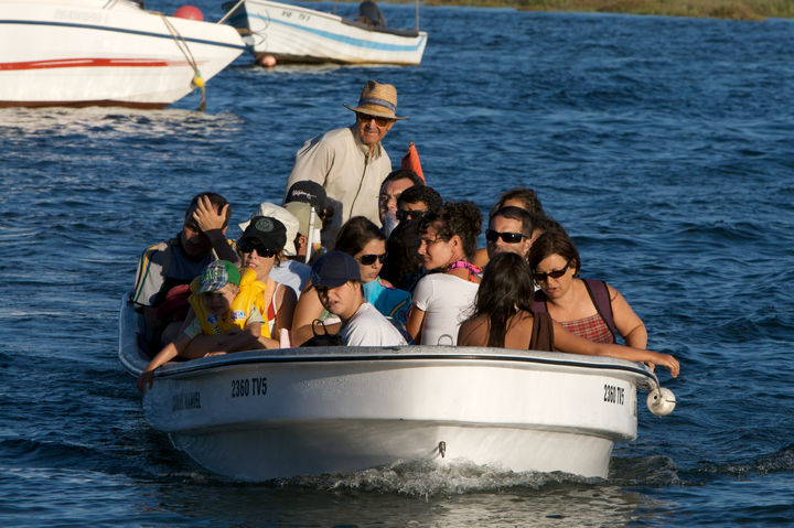 Beach goers returning aboard a Cabanas de Tavira water taxi